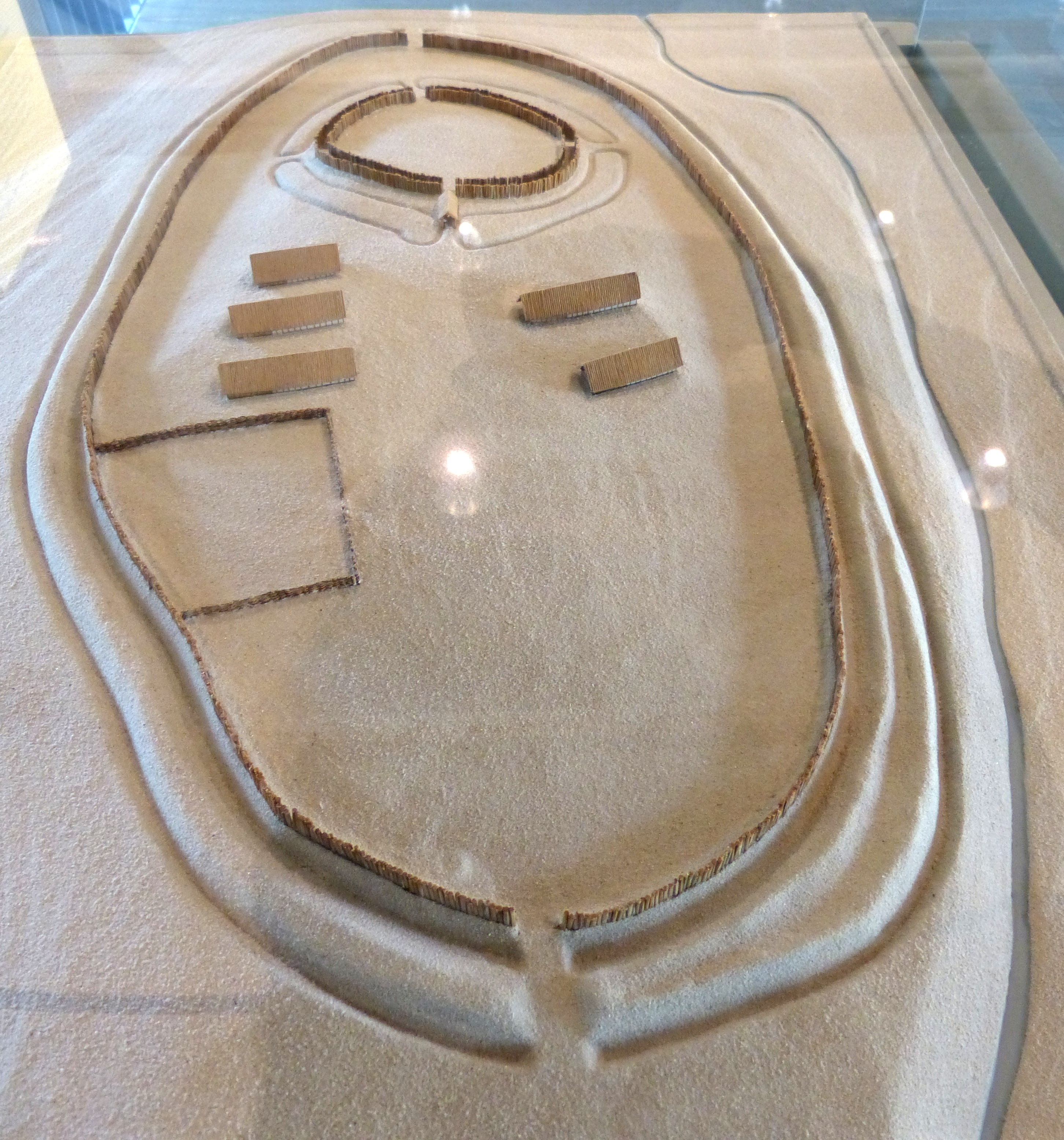 Landau an der Isar ( Lower Bavaria ). Archaeological Museum of Lower Bavaria: Model of neolithic earthwork of Künzing-Unternberg.